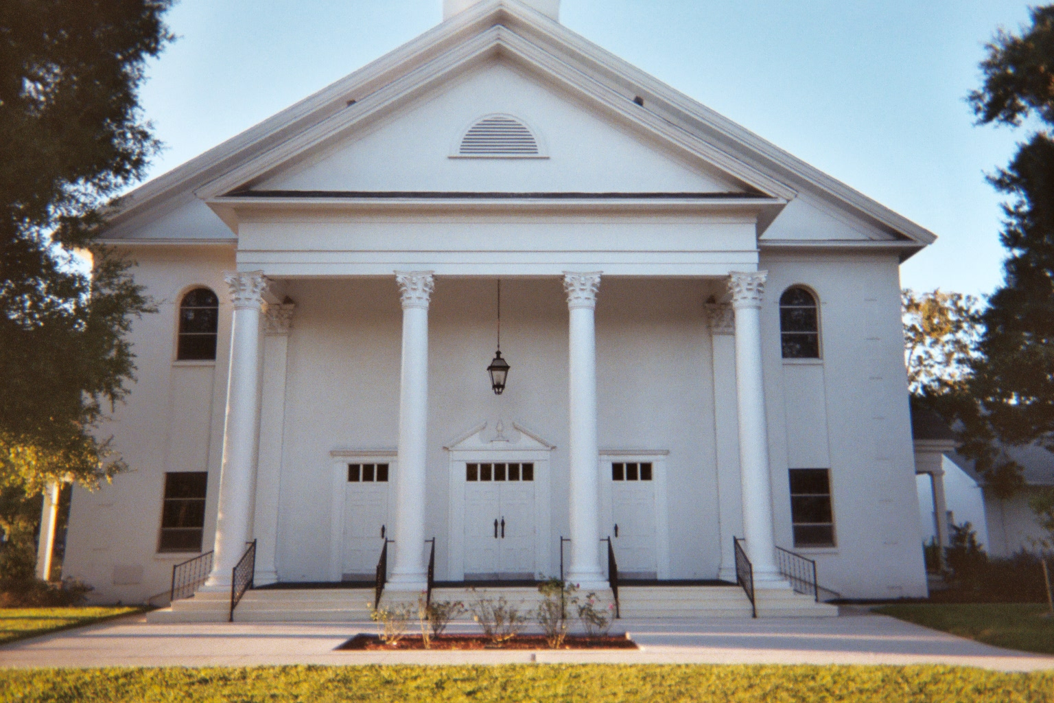 First United Methodist Church in Zephyrhills Downtown Historic District, in Zephyrhills, Florida